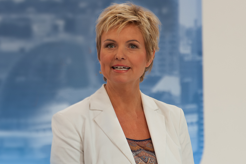 Carola Ferstl at IFA 2013, Hall 23